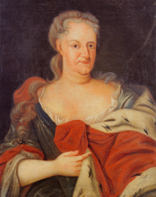 Portrait of Augusta Dorothea of Brunswick-Wolfenbüttel (1666-1751), Princess of Schwarzburg-Sondershausen